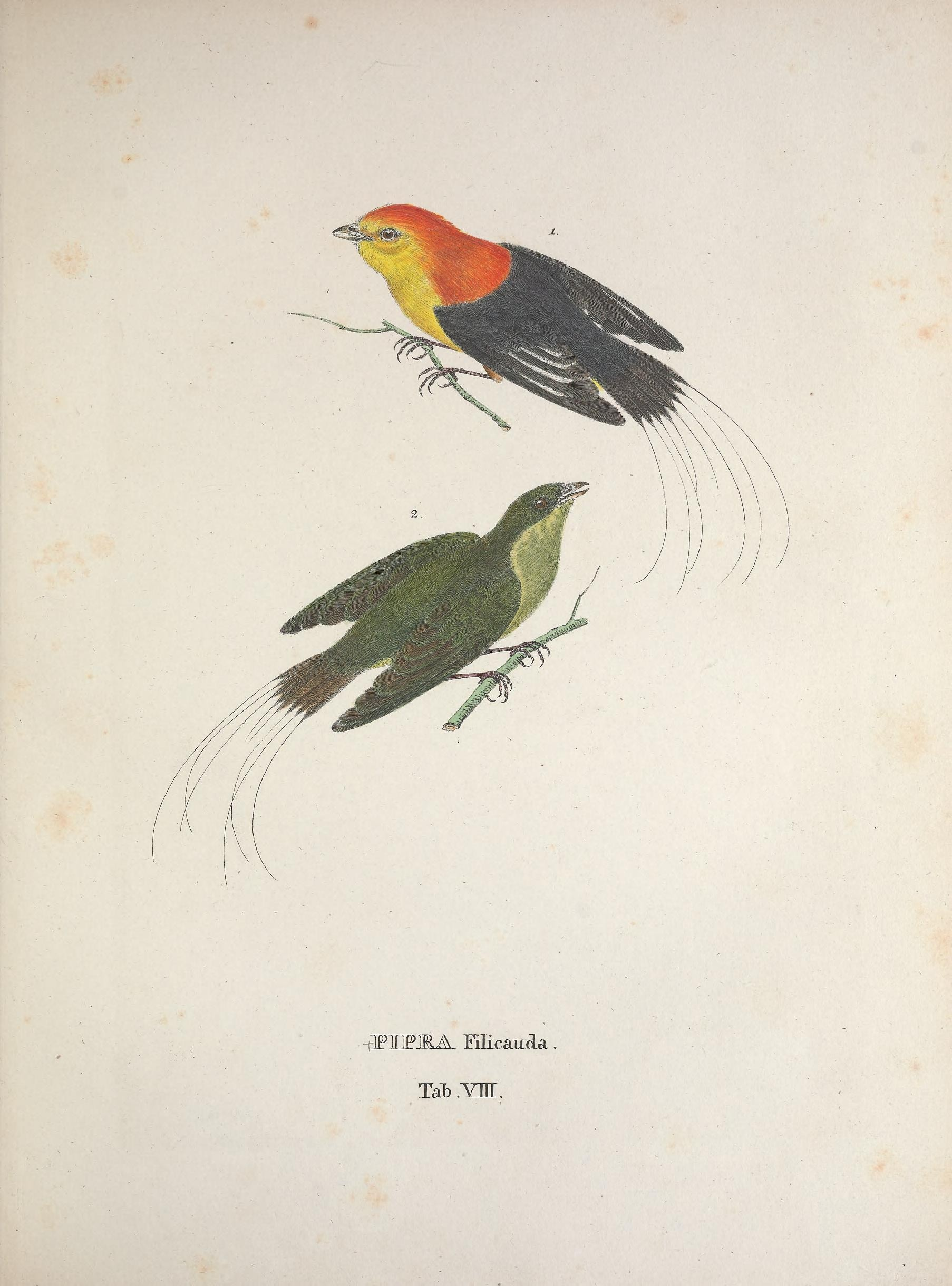 Avium species novae, quas in itinere per Brasiliam annis MDCCCXVII-MDCCCXX /. Monachii :Typis Franc. Seraph. Hübschmanni,1824-1825..